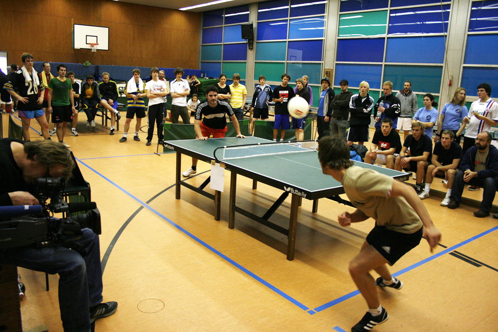 Two HEADIS Player in tournament final 2009 (Goettingen)